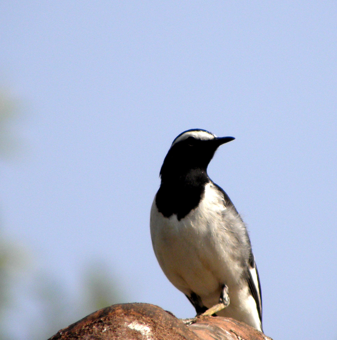 White-browed Wagtail